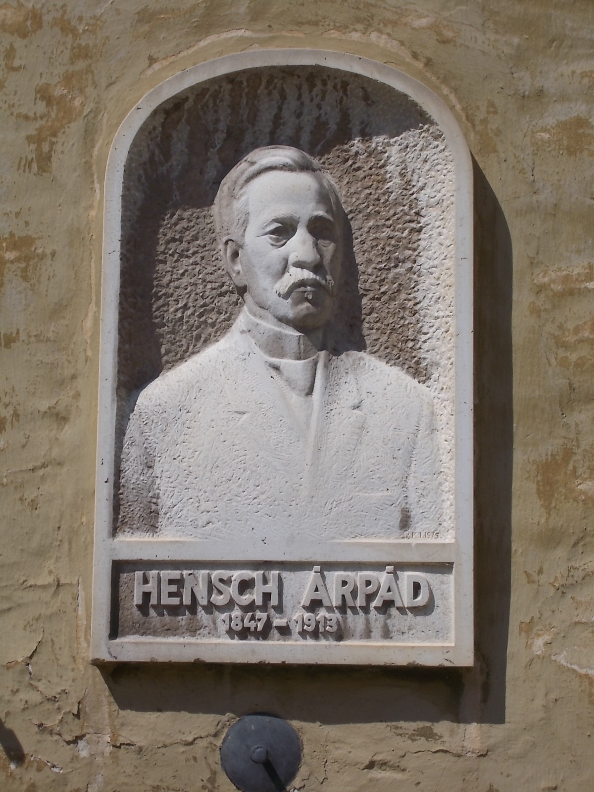 Relief of Árpád Hensch by István Kamotsay (limestone, 1975 works) on the wall of Castle Palace courtyard on the campus of Faculty of Agricultural and Food Science of Széchenyi István University in Magyaróvár neighborhood, Mosonmagyaróvár, Győr-Moson-Sopron County, Hungary.